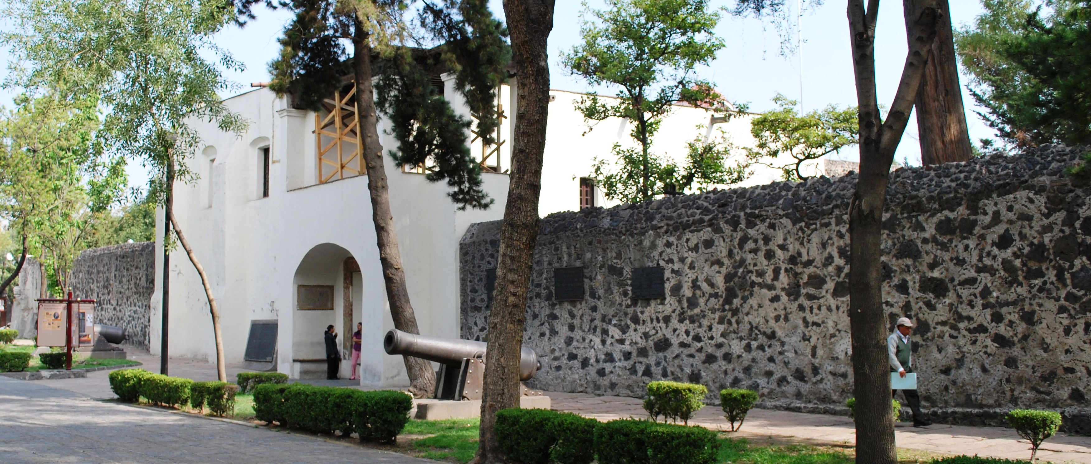 Outside main entrance to the Museo Nacional de las Intervenciones (ex Monastery of Churubusco) in Coyoacan borough, Mexico City